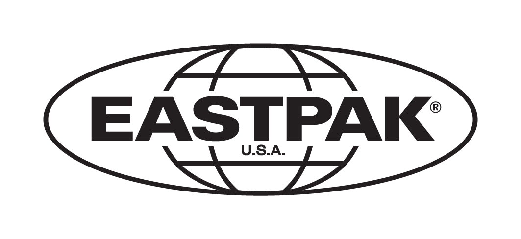 Eastpak logo.